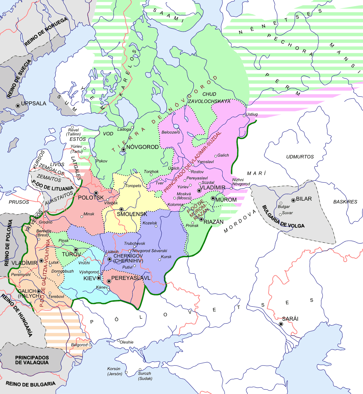 Map of Kievan Rus in 1237 (in Spanish)